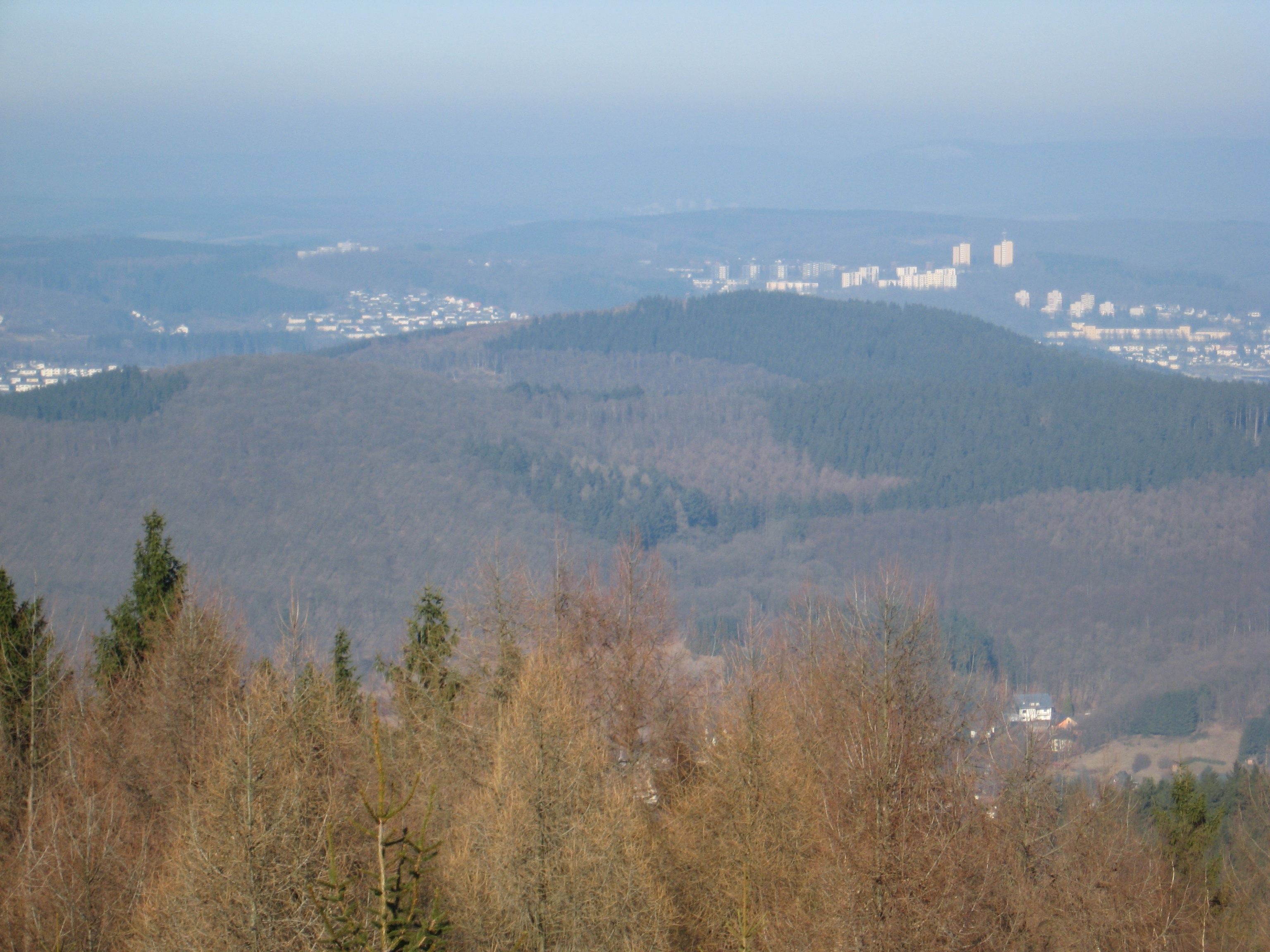 The „Gilberg“ as seen from the „Pfannenbergturm“.